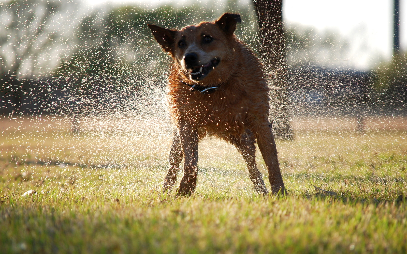 Mae Shakes off the Water